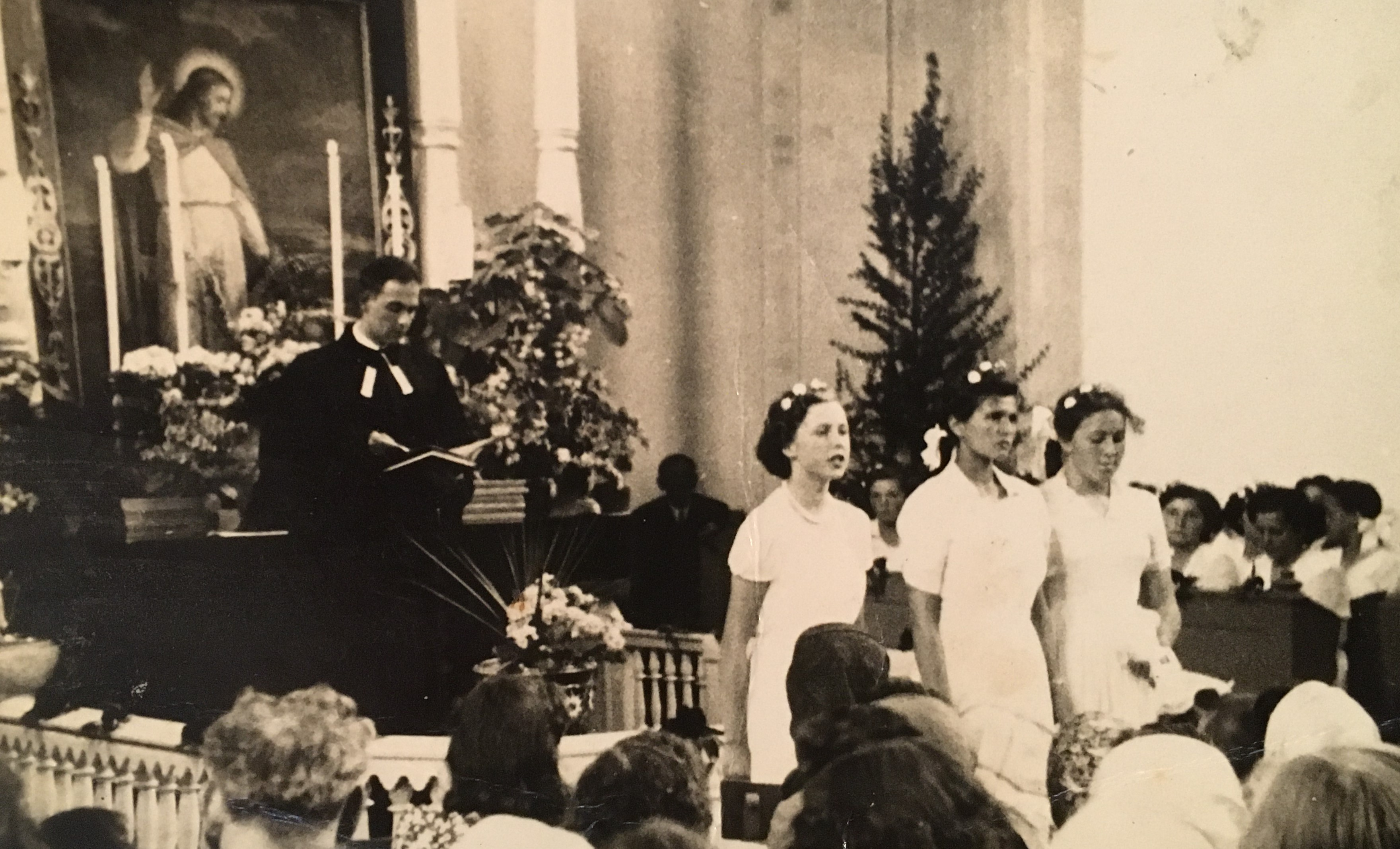 Confirmation in the evangelical church in Hošťálková in June 1952 led by the local pastor Pavel Nagy.